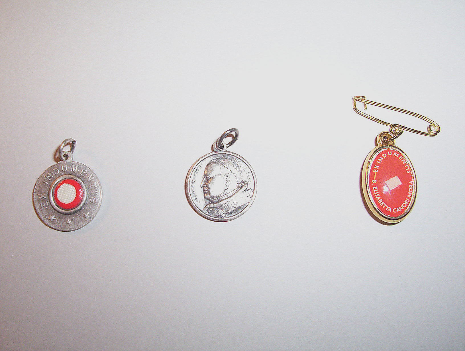 Relics, 3rd class. Picture by User:Torvindus.